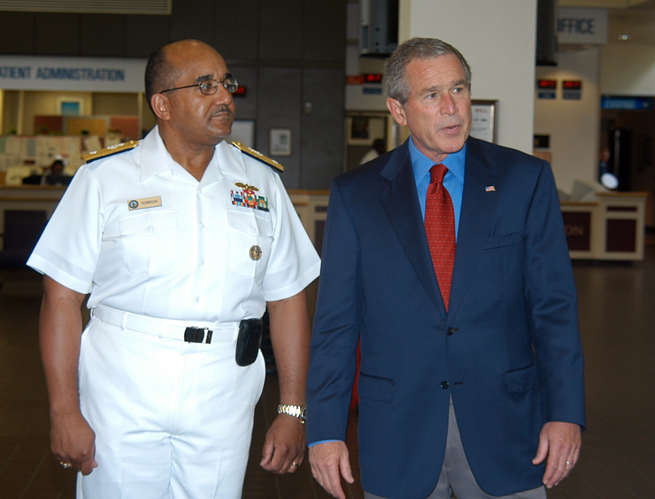 Bethesda, Md. (July 30, 2005) - President George W. Bush and National Naval Medical Center Commander, Rear Adm. Adam Robinson, walk together as they exit the hospital following the president's successful annual physical July 30. Known as the "President's Hospital," National Naval Medical Center in Bethesda, Md., has been the historical site of all presidential physicals since 1942. Staffed with more than 4,500 military and civilian personnel, the hospital not only cares for presidents, but also Vice Presidents, members of Congress, and Justices of the Supreme Court. The hospital's primary mission is the assured readiness and care of the uniformed services and their families. As one of the biggest military medical centers on the East Coast, National Naval Medical Center receives more than 500,000 patient visits a year and delivers more than 2,000 babies annually. U.S. Navy photo by Journalist Seaman Heather Weaver (RELEASED)